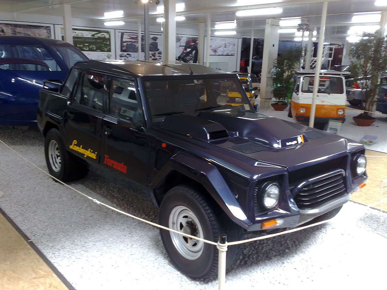 Lamborghini LM002 at Auto- und Technikmuseum Sinsheim